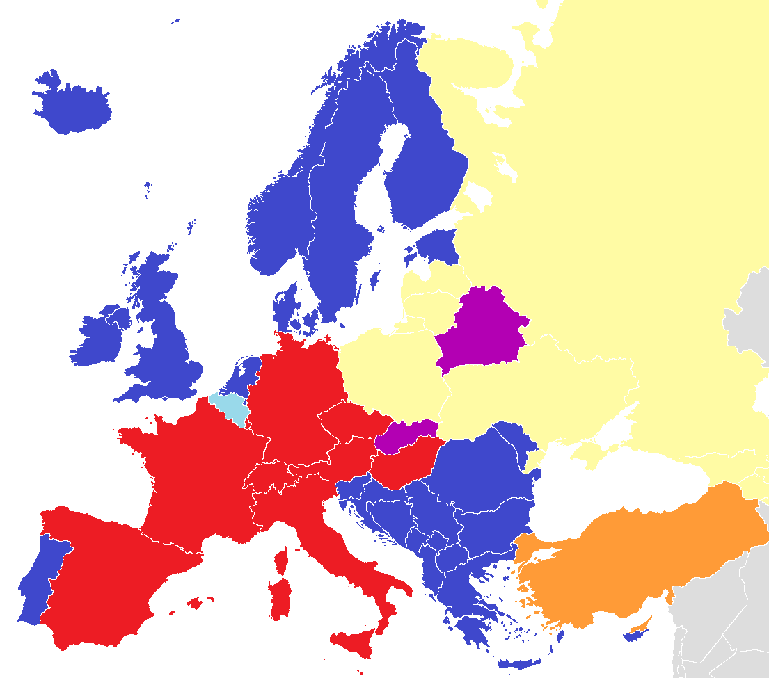 Dubbing films in Europe: Dubbing only for children: Otherwise solely subtitles Mixed areas: Countries using occasionally full-cast dubbing otherwise solely subtitles. Voice-over: Countries using usually one or just a couple of voice actors whereas the original soundtrack persists. General dubbing: Countries using exclusively a full-cast dubbing, both for films and for TV series. Countries which occasionally produce own dubbings but generally using dubbing versions of other countries since their languages are quite similar to each other and the audience is also able to understand it without any problems (Belarus and Slovakia). Belgium: The Flemish speaking region occasionally produces its own dialect dubbing versions, otherwise solely subtitles. The French speaking region of Wallonia and the German speaking region of East Belgium use exclusively a full-cast dubbing, both for films and for TV series.